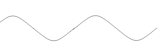 A very simple diagram of waves.